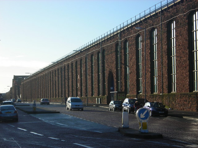 The Gun Shop The Victorian sandstone facade of the long building where heavy guns were assembled lines the western side of Michaelson Road on Barrow Island.